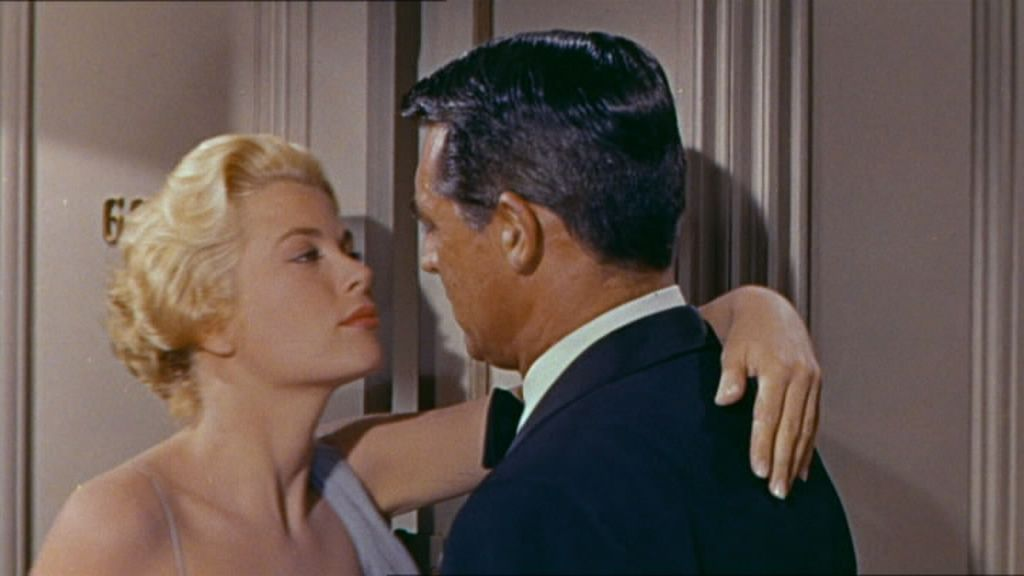 Screenshot of Grace Kelly and Cary Grant from the trailer of the film To Catch a Thief (film)